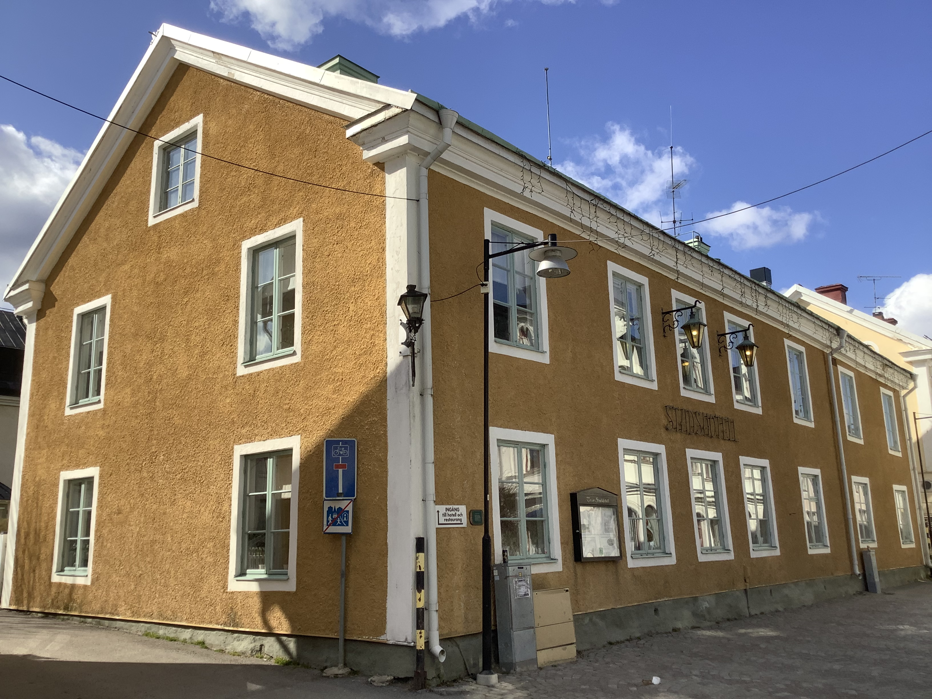 Trosa stadshotell, Trosa City Hotel, in the corner of Västra Långgatan and Källargränd